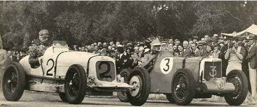 The No. 2 Day Special of Reg Nutt and the No. 3 MG K3 Magnette of Colin Dunne prior to the start of the 1938 South Australian Grand Prix at the Lobethal Circuit. The Day Special was a Bugatti Type 39 (chassis number 4607) with a Ford V8 engine.